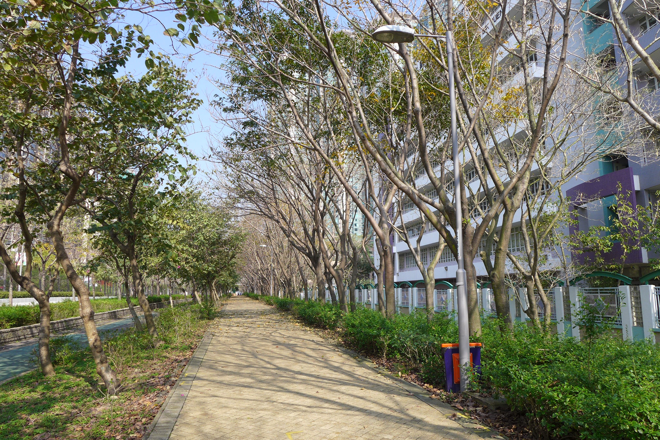 Tung Chung Harbourfront Road path